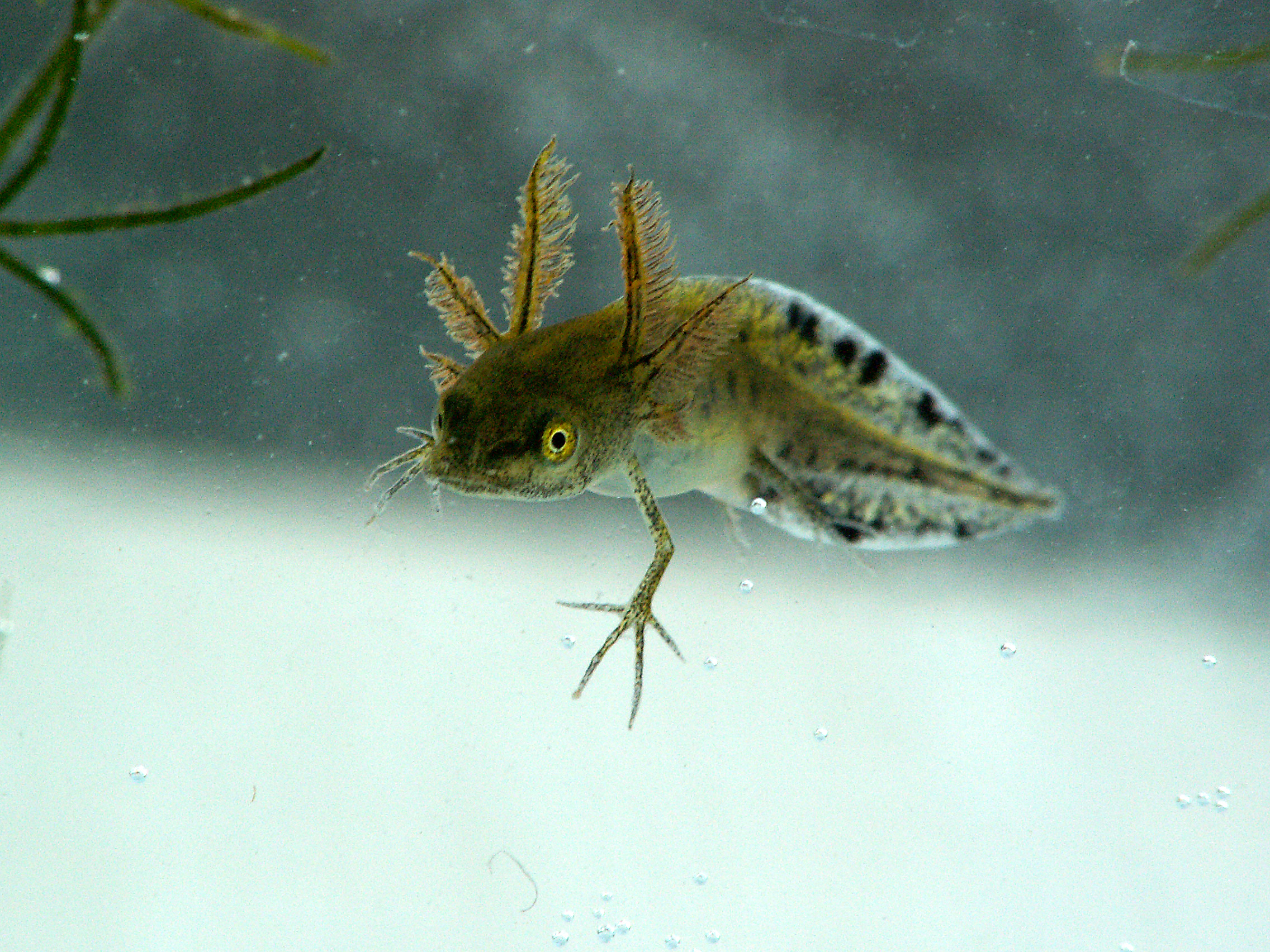 Middle sized larva of Triturus cristatus